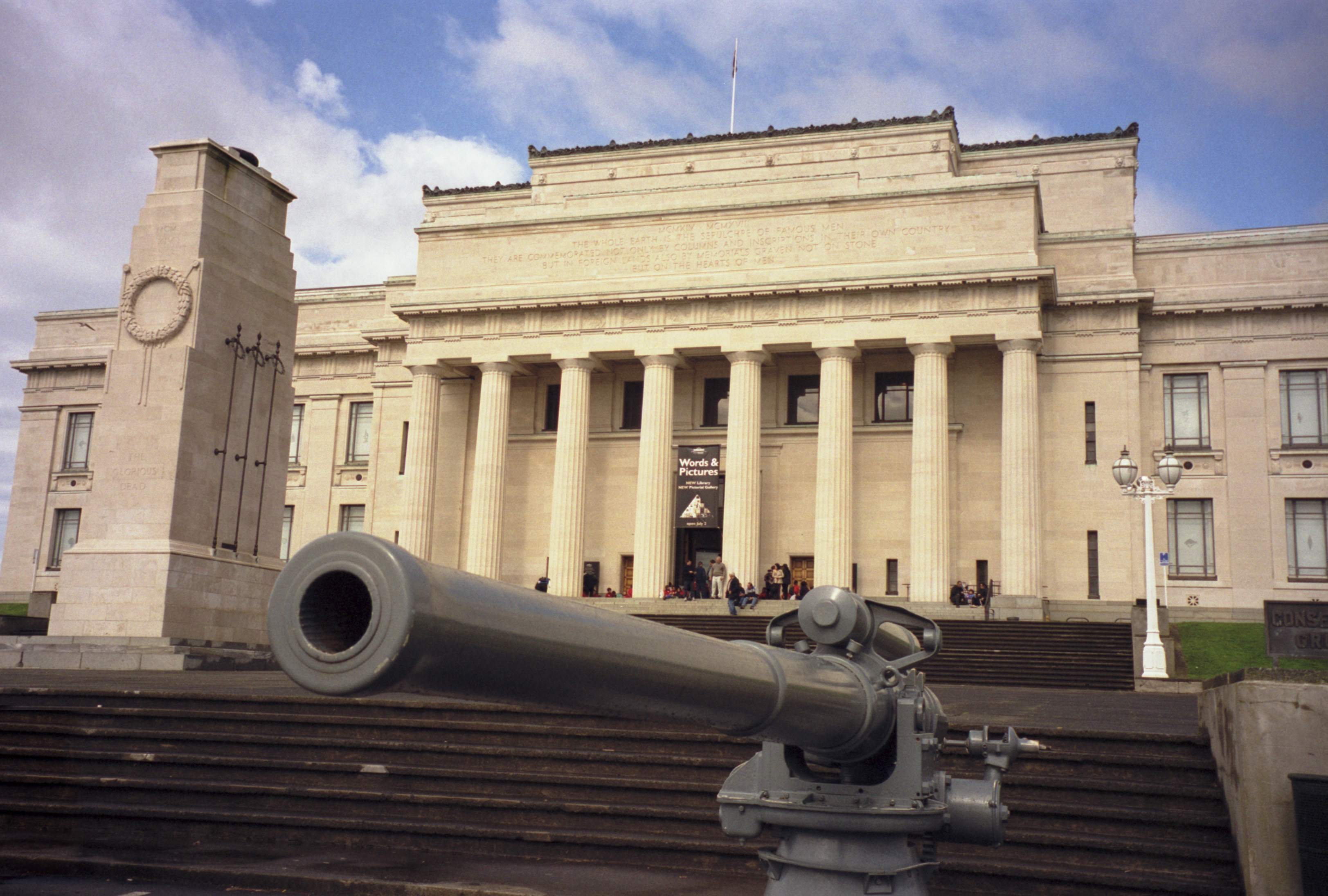 Auckland War Memorial Museum, New Zealand. The gun is a BL 4 inch Mk VII from HMS New Zealand.